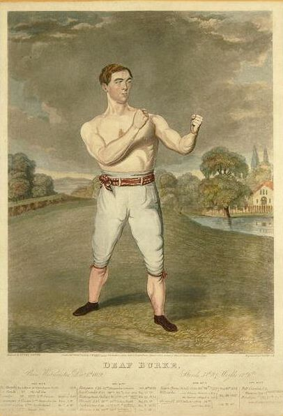 "Deaf Burke", 1839, engraved by Charles Hunt after Henry Hoppner Meyer (1782-1847)